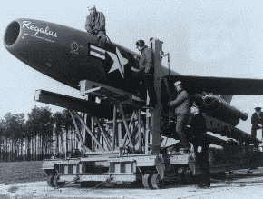 A military (public domain) photo of a Regulus cruise missile. Used, oddly enough, in the article Regulus missile. Available from numerous .mil Web sites, including